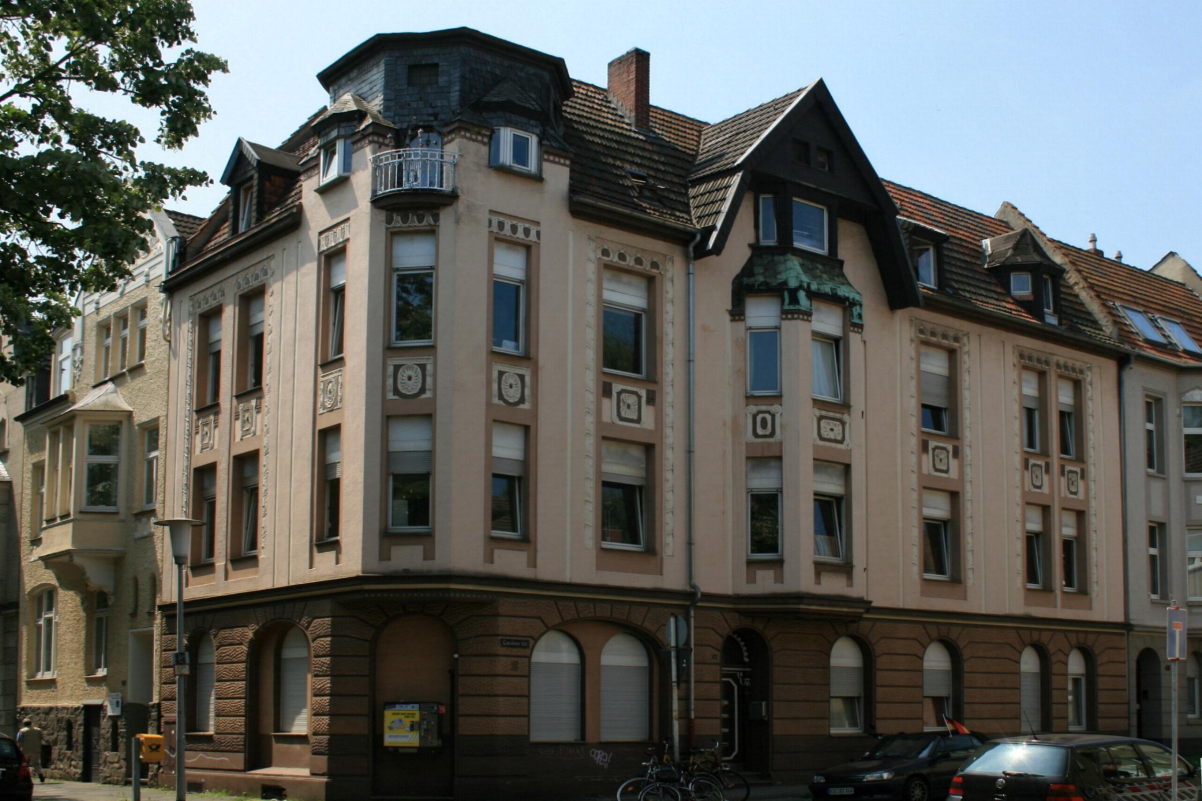 Cultural heritage monument No. C 004 in Mönchengladbach